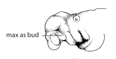 Standard Event System character depiction